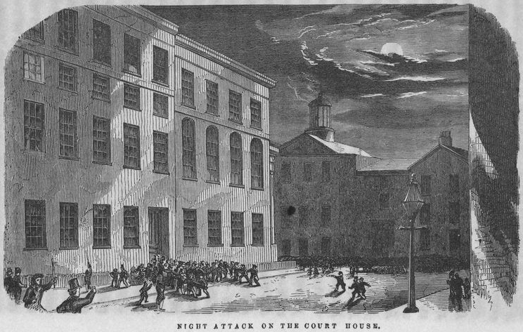 Night attack on the court house, Boston (ca.1854) Published Date: 1856 Item/Page/Plate: facing page 42 Source: Anthony Burns, a history. By Stevens, Charles Emery, 1815-1893 -- Author